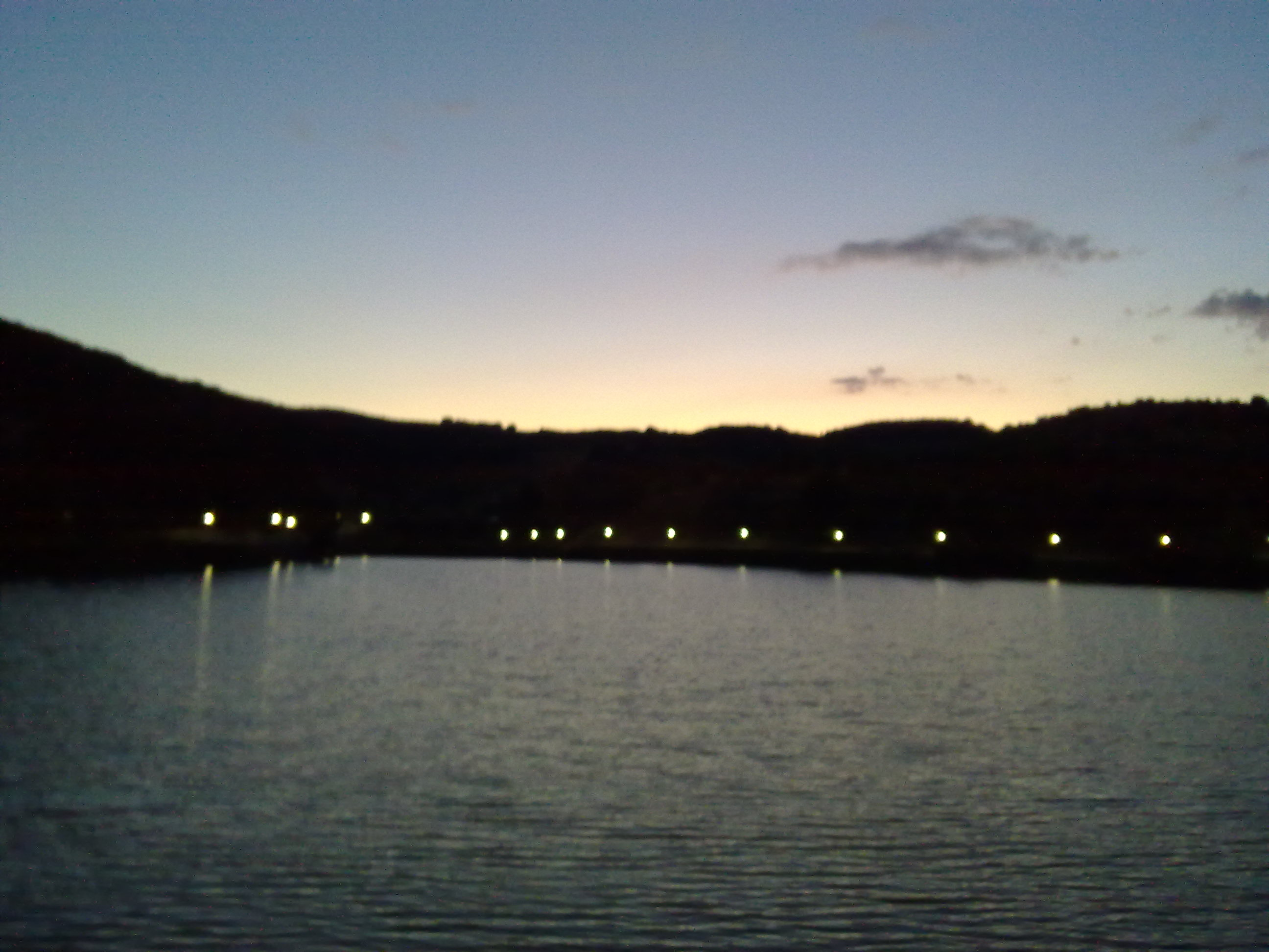 Lake Kruševo at night